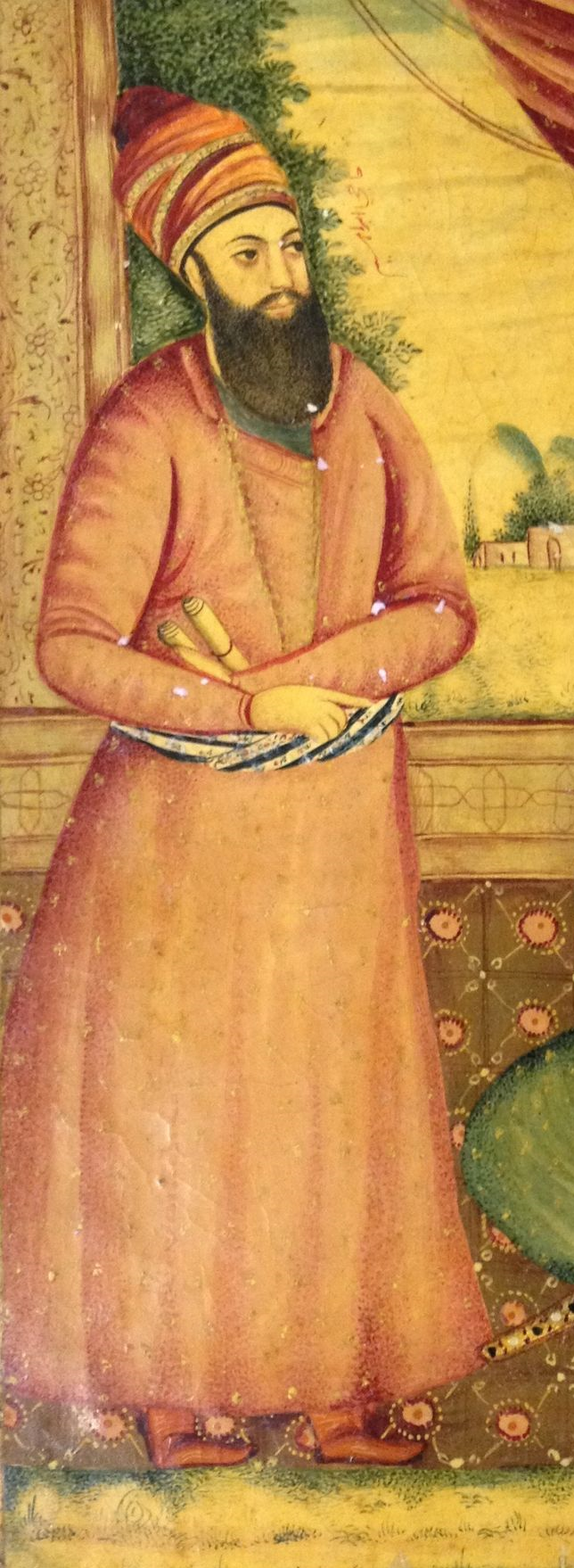 Portrait of the prominent Iranian aristocrat Ebrahim Khan Kalantar, also known as Hajji Ibrahim and Ebrahm Kalantar Shirazi. Source: The Cambridge history of Iran, volume 7, page 179.